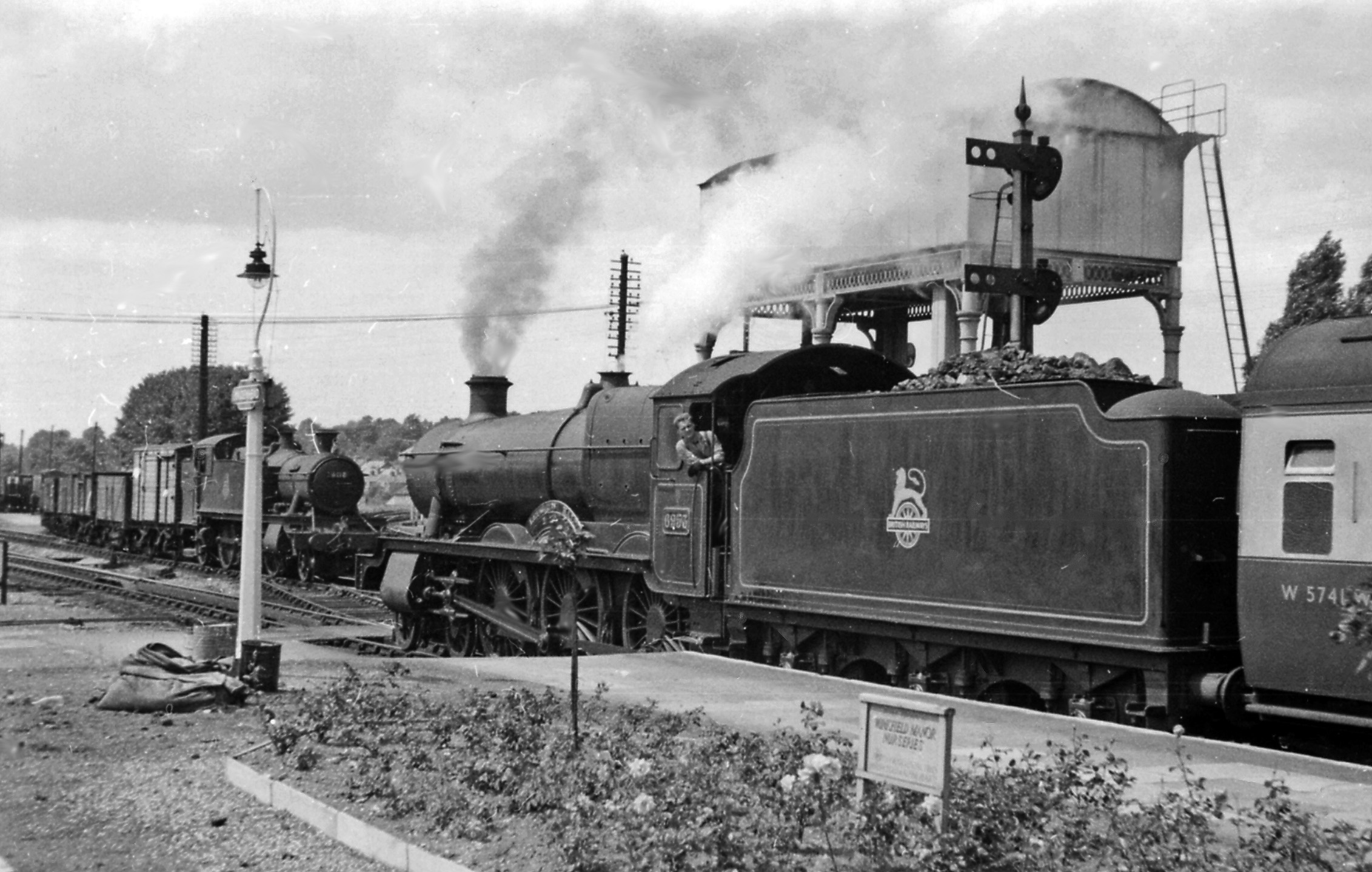 A 'Hall' and a 61XX at Maidenhead station. View NW, towards Reading, also High Wycombe; ex-GWR Paddington - Reading and the West main line, junction of branch to Bourne End and High Wycombe - closed beyond Bourne End from 4/5/70. At the Down Slow platform is 4-6-0 No. 6953 'Leighton Hall' (built 2/43, named 4/47, withdrawn 12/65) on a Paddington - Oxford stopping train, while 2-6-2T No. 6118 with a goods is coming off the branch from High Wycombe.